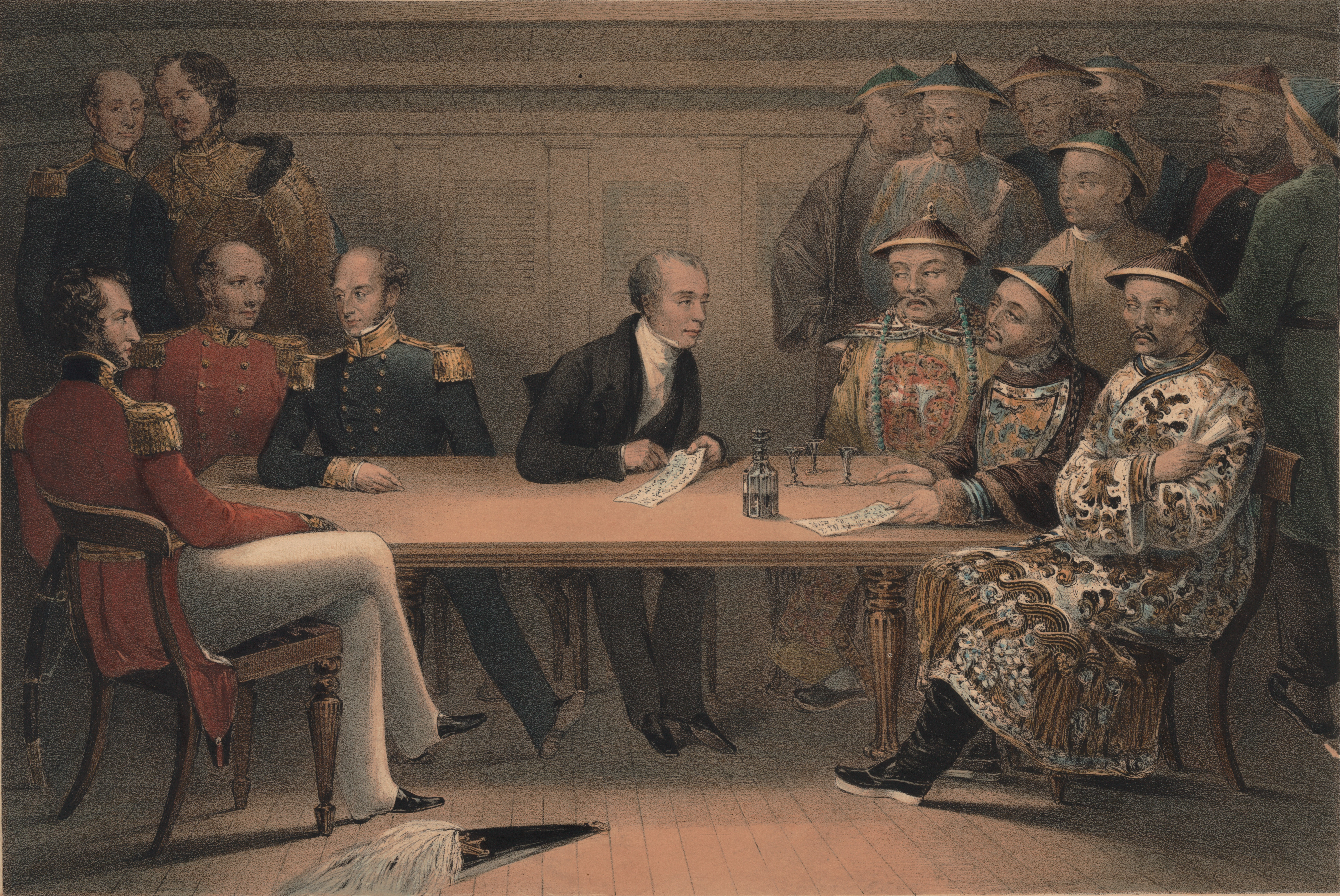 Conference between Commodore Sir James John Gordon Bremer and Chinese Admiral Zhang Chaofa (Governor of Chusan) with the chief Mandarins, on board HMS Wellesley of Captain Thomas Maitland, on 4 July 1840, in the harbour of Chusan, the evening before the taking of the island. Karl Gützlaff (centre) served as interpreter.̈ Seated on the British side (left to right): Sir Harry Darell, Brigadier George Burrell, and Commodore James Bremer. Standing is Captain Thomas Maitland (top left) and Lord Robert Jocelyn. Seated on the Chinese side (left to right): Admiral Zhang, his flag captain Qian Binghuan, and chief magistrate of Chusan Yao Huaixiang.